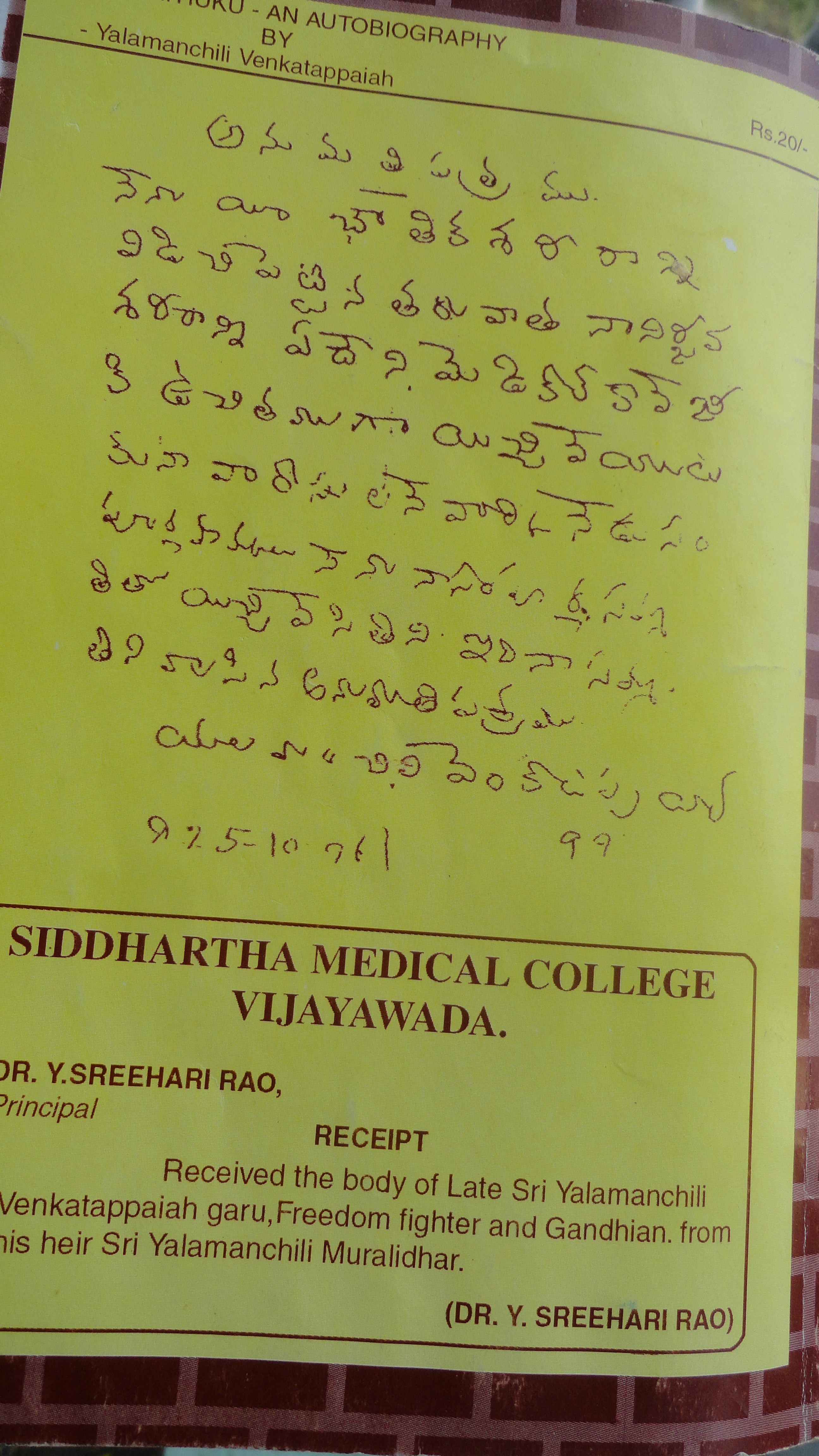 book back cover